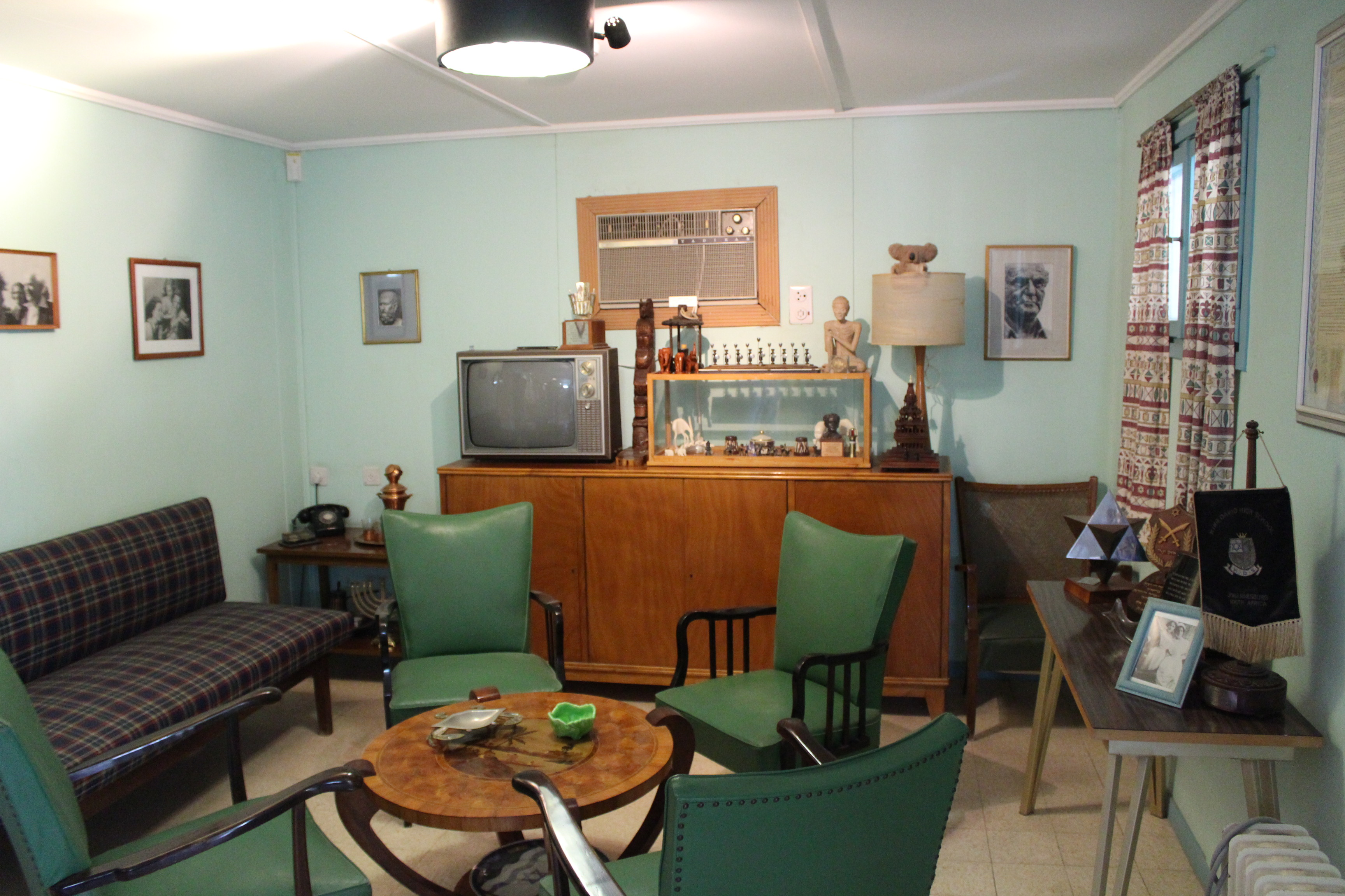 David Ben Gurion's house, Sde Boker, Israel